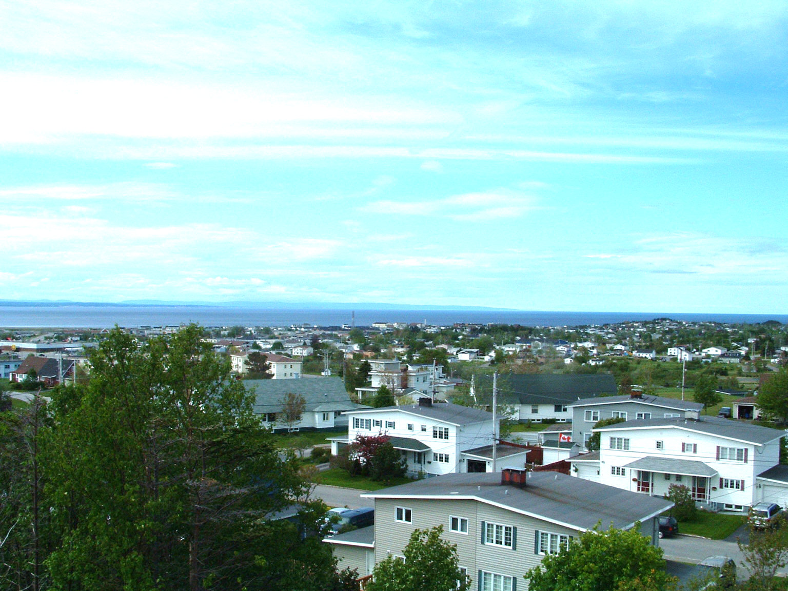 Overlooking the town of Stephenville, Newfoundland.